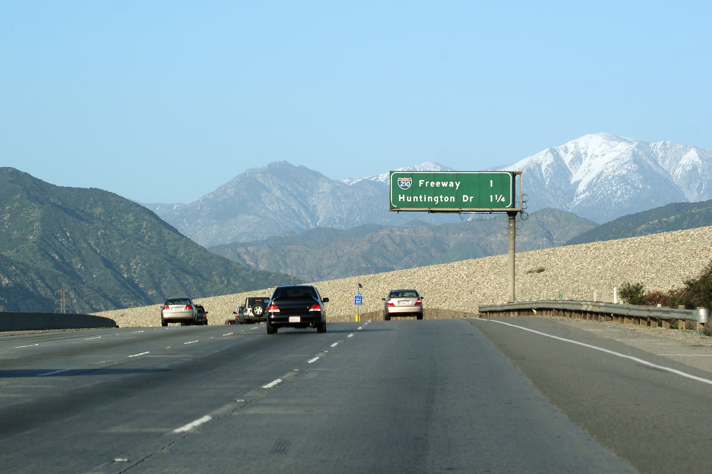 Image taken by me. Similar images available here